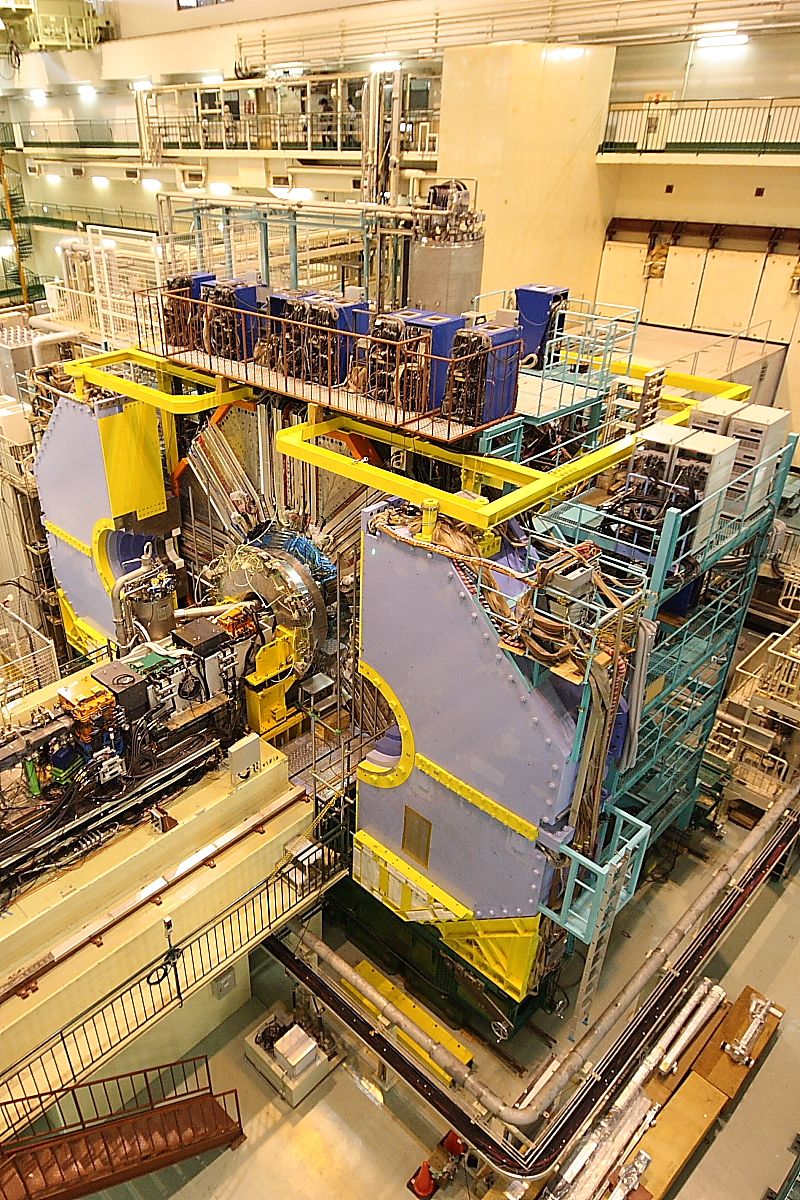 Belle Detector, KEKB. KEK (High Energy Accelerator Research Organization), Tsukuba city, Japan.